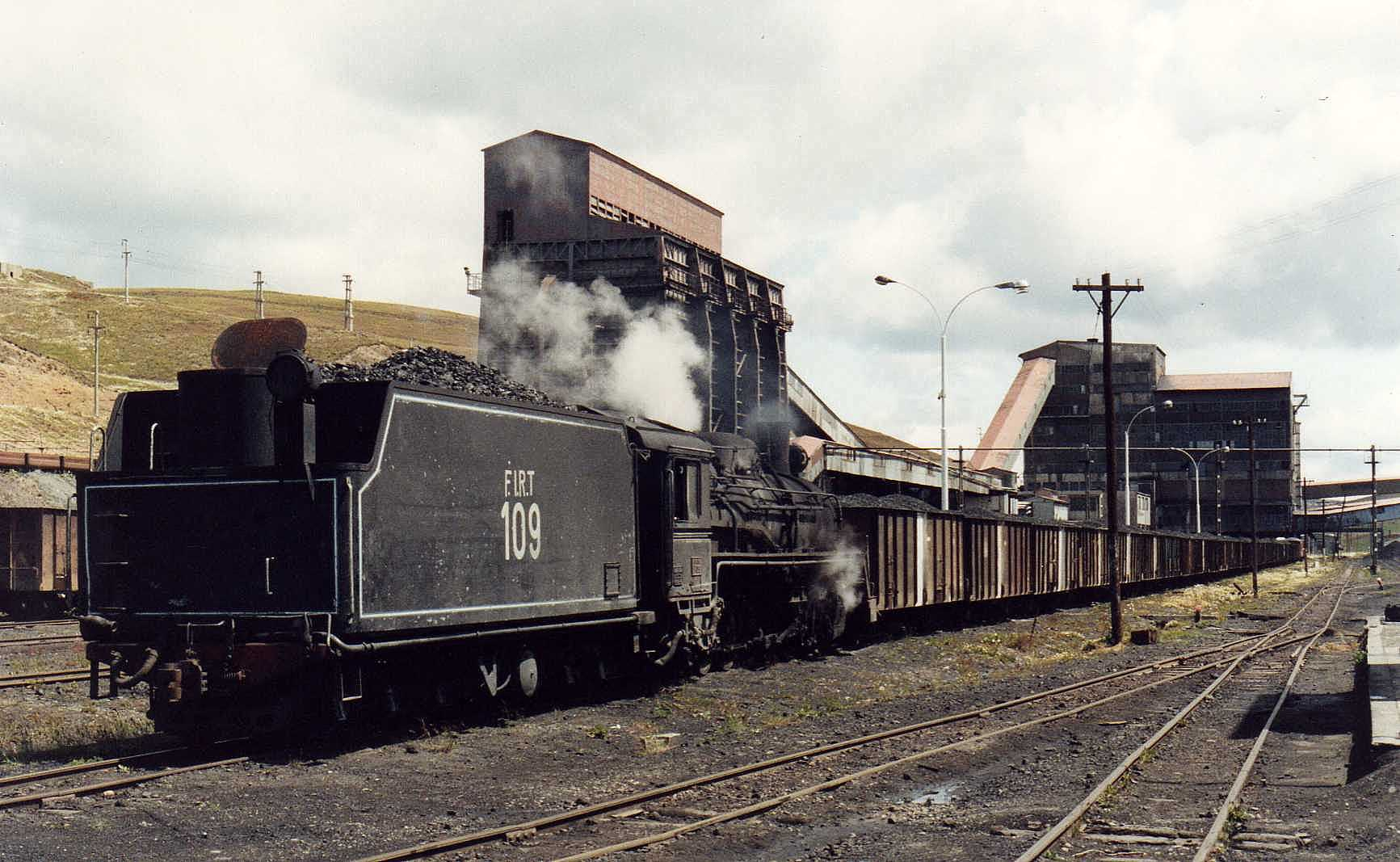 RFIRT locomotive No. 109 (Mitsubishi 2-10-2, 750 mm gauge, 1200 HP) shunting a coal train at Rio Turbio mine, Argentina, ca. 1996. Npte the FIRT (Ferrocarril Industrial Río Turbio), which was the line´s name for a short time.